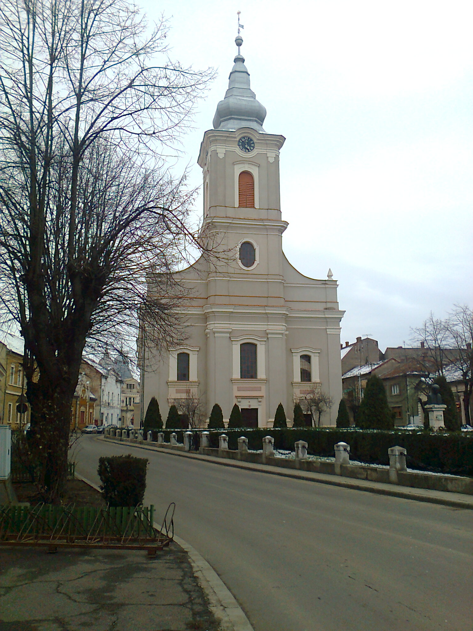 The socall "Chain" Reformed Church in Satu Mare (Romania)